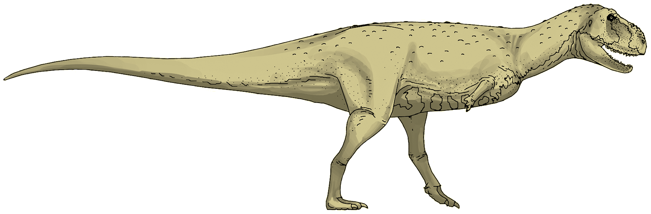 Ekrixinatosaurus novasi.